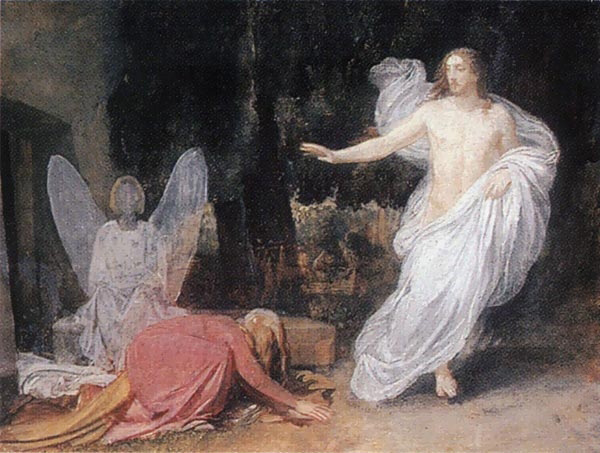 The Appearance of Christ to Mary Magdalene after the Resurrection (study), (painting by Alexander Ivanov, circa 1833)